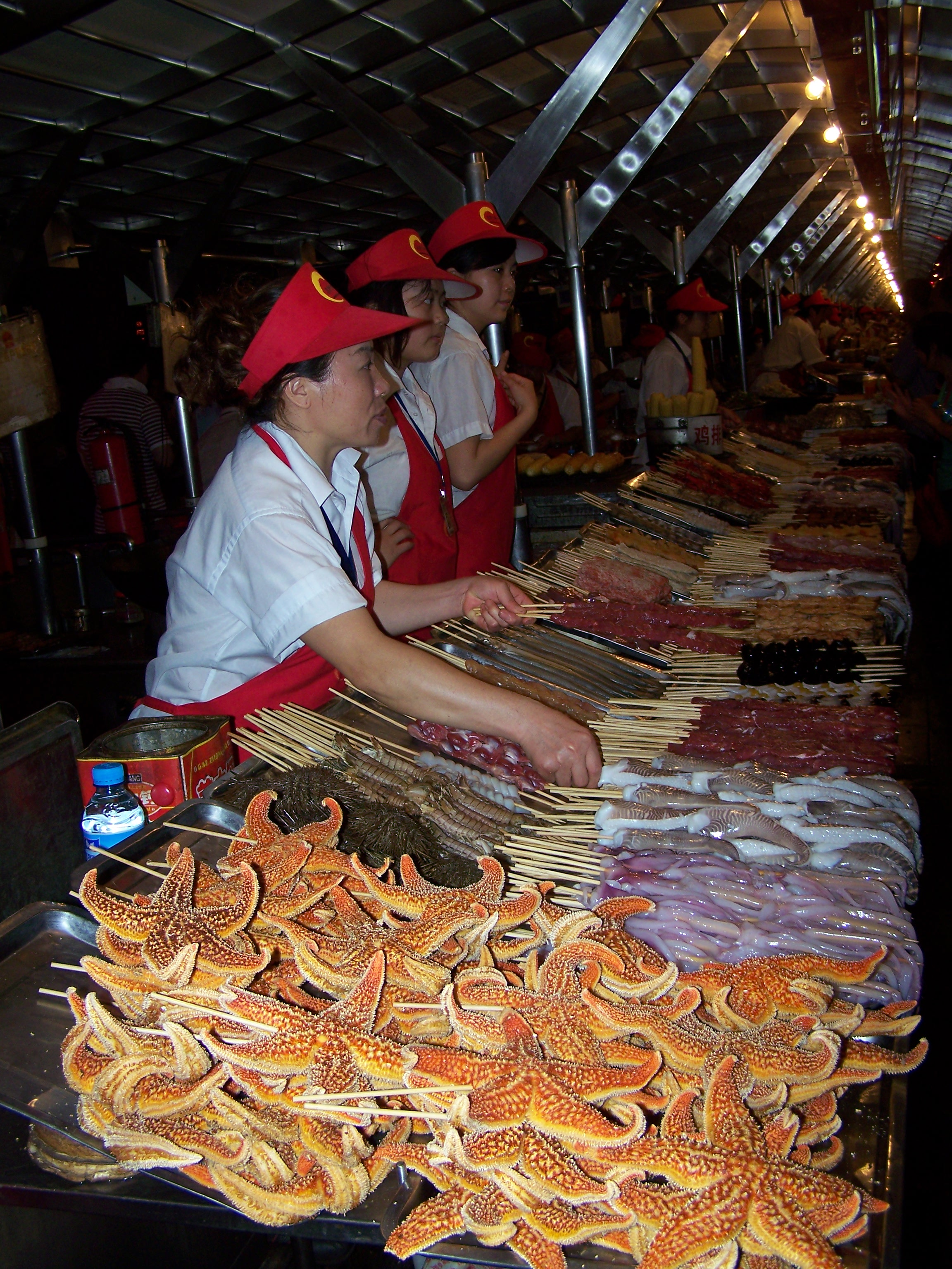 Food on a stick being sold at Wangfujing Street in Beijing.